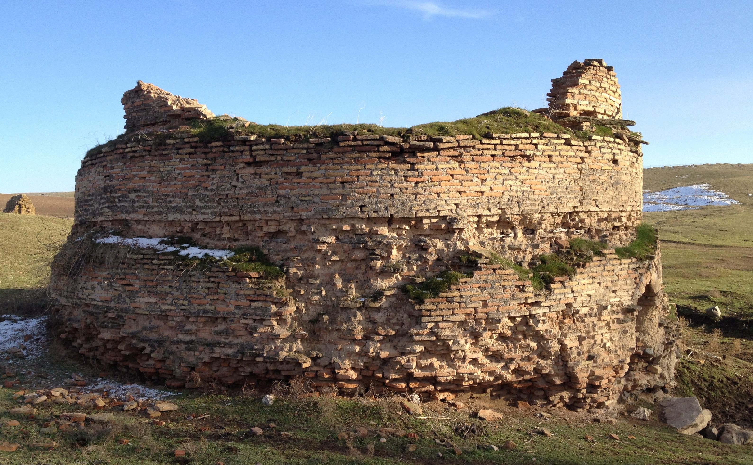 North side of Qaynar ab-anbar